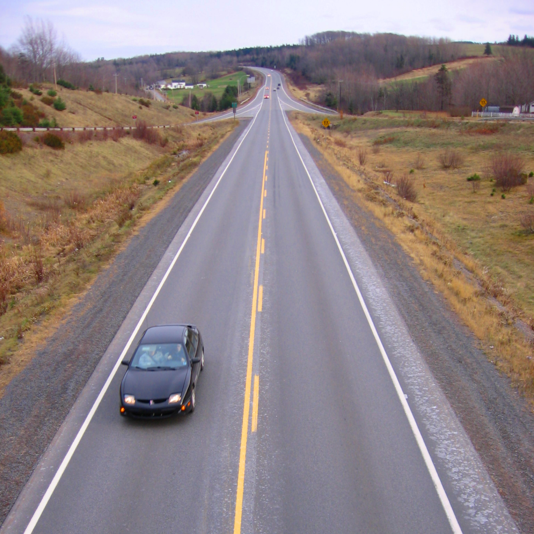 Photo of provincial highway outside Kentville, Nova Scotia